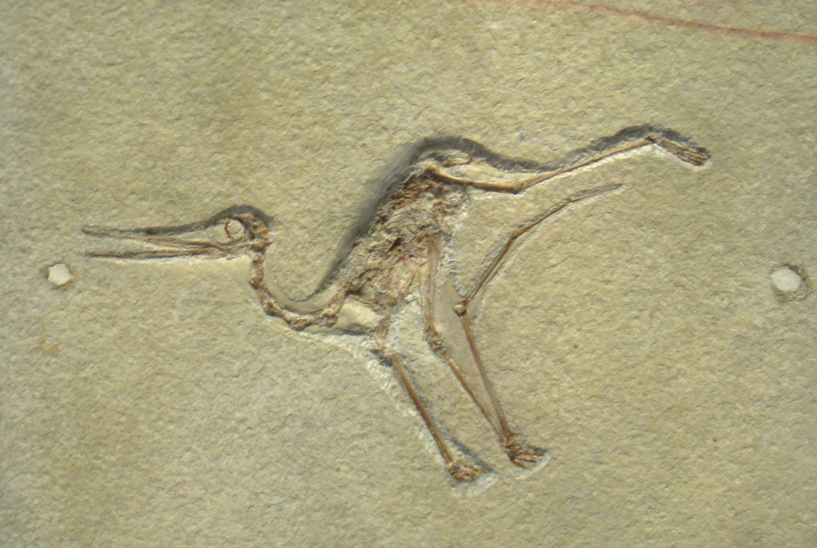 Specimen CM 11426 (alternately CM 11 426, or No. 44 in Wellnhofer's 1970 catalog) of Aurorazhdarcho micronyx, earlier referred to Gnathosaurus subulatus and/or Pterodactylus micronyx, Carnegie Museum of Natural History, Pittsburgh, Pennsylvania, USA.